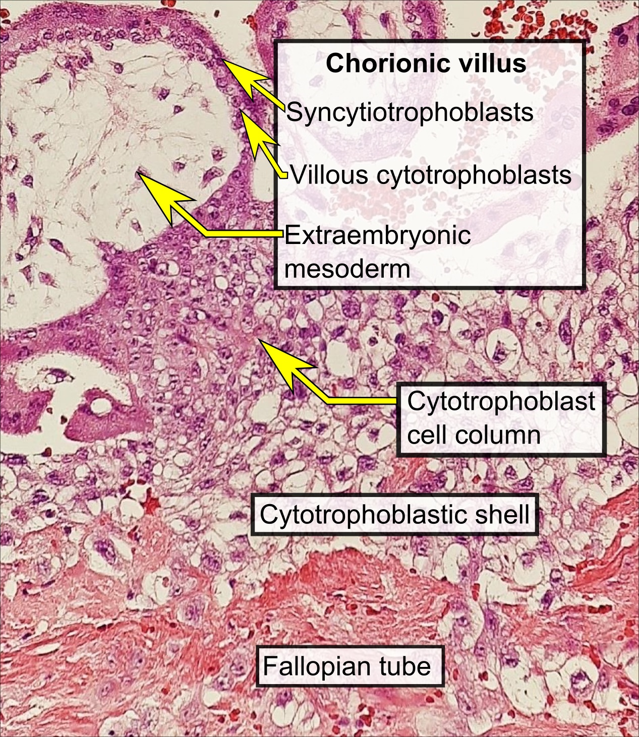 Histopathology of a tubal pregnancy, including a chorionic villus. There is some hemorrhage in the intervillous space. H&E stain. Reference: (2019). "Development of the human placenta". Development 146 (22): dev163428. ISSN 0950-1991.